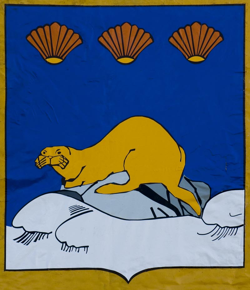 Coat of Arms Severo-Kurilsk